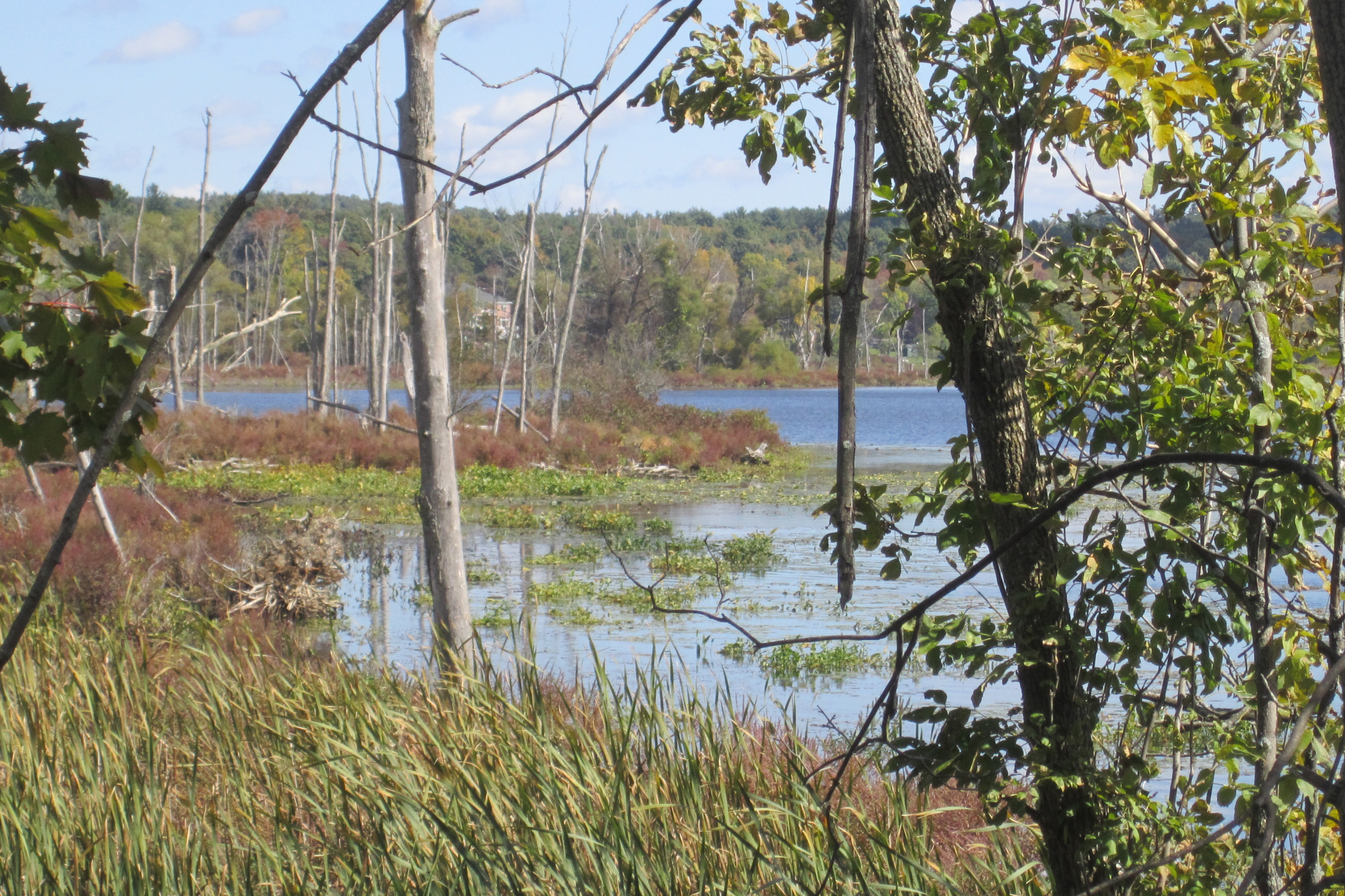 The swampy inlet of Round Lake, New York, where Shenantaha Creek (Ballston Creek) flows in